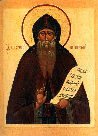 Saint Ambrosius of Optina. Source URL